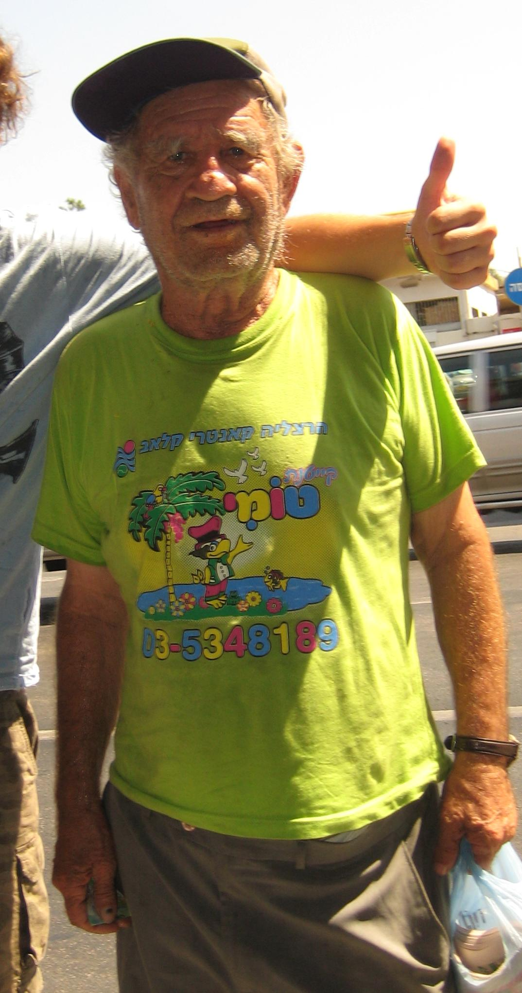 D. Alir